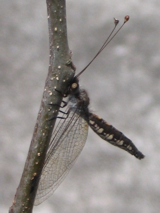 This Owlfly spotted in my garden.